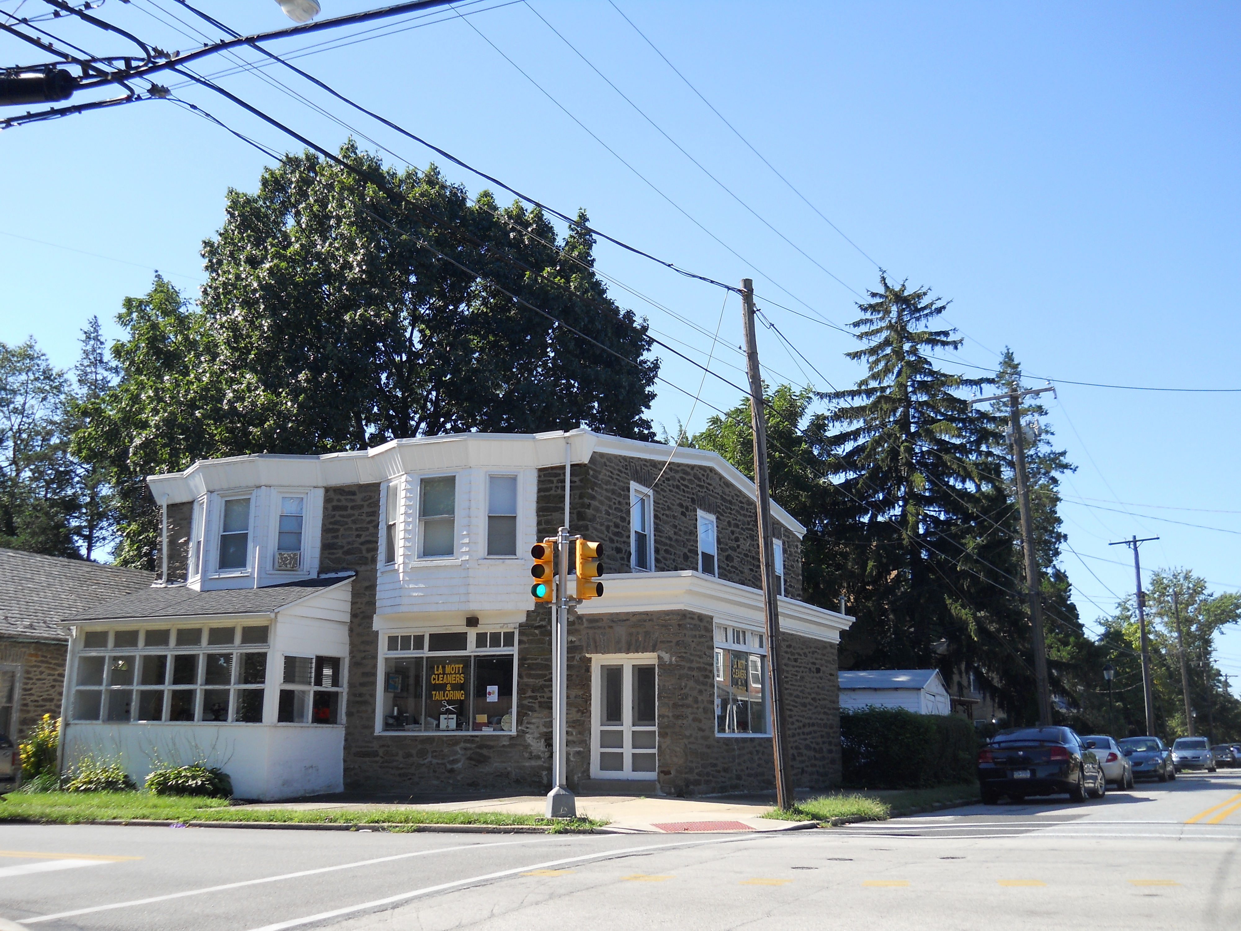 Camptown Historic District South corner of Willow Ave. and Sycamore Ln.